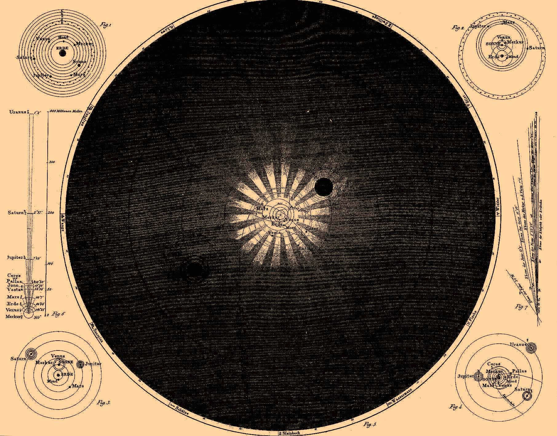 Illustration from Brockhaus and Efron Encyclopedic Dictionary (1890—1907)